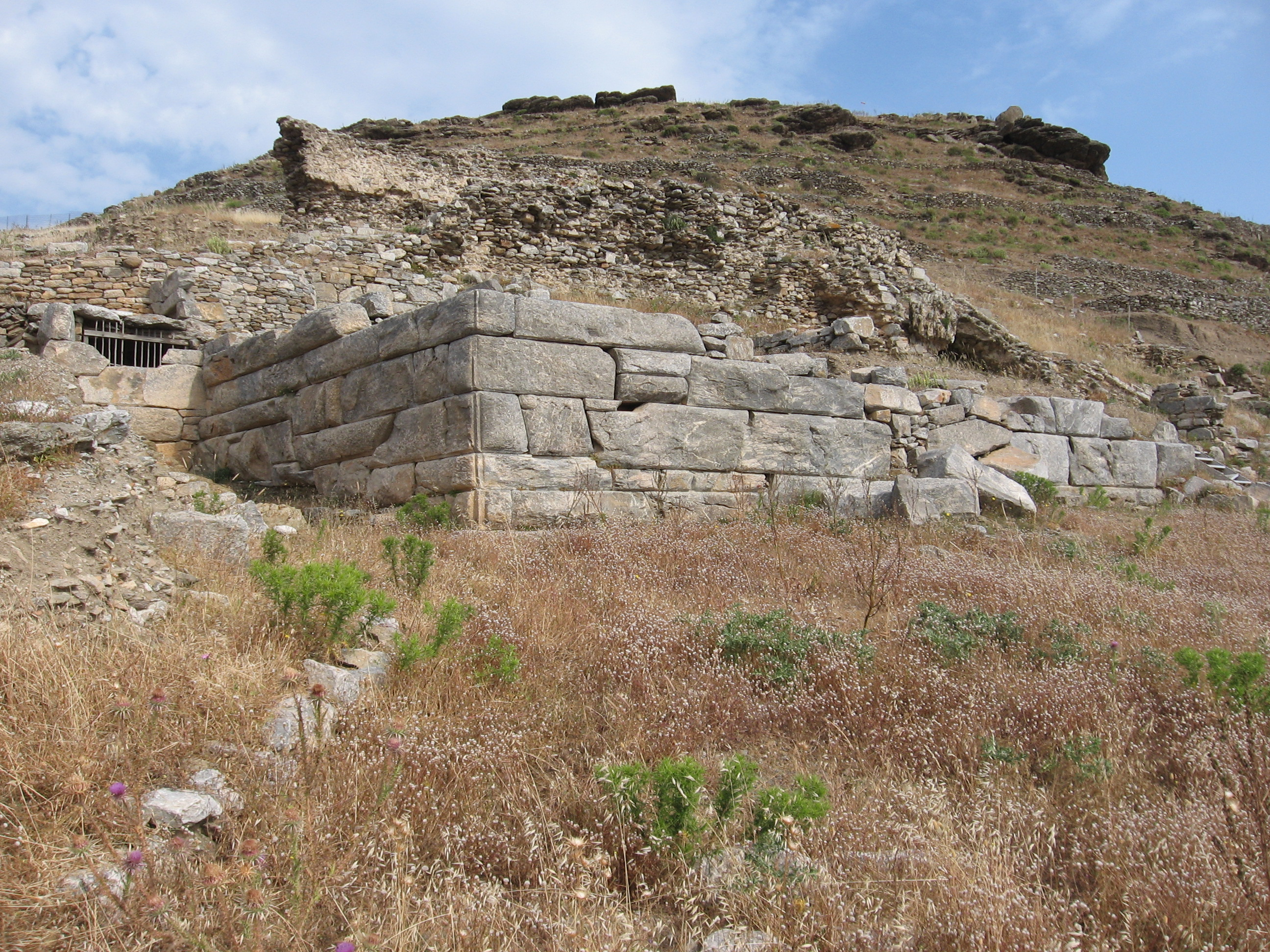 Hellenistic fortifications of Minoa city, Katapola, Amorgos island.